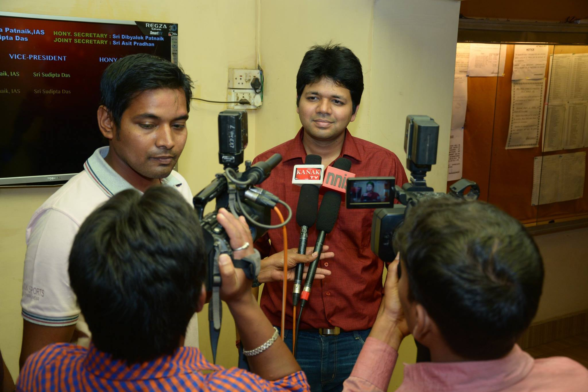 Sapan Saxena talking to reporters during the Bhubaneshwar launch of Finders, Keepers